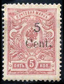 Russian post offices in China 5k stamp of 1920